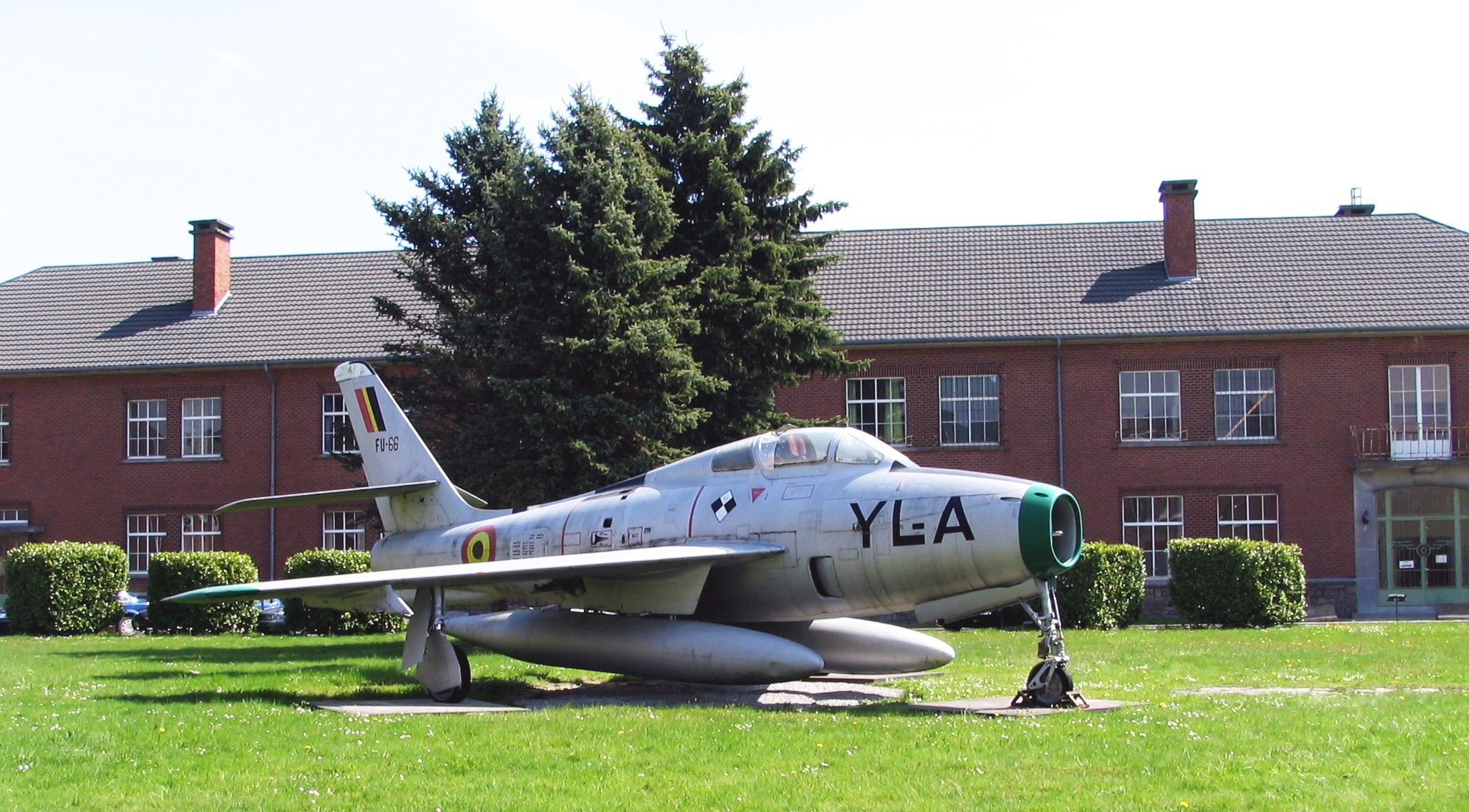 Republic F-84F. Picture toke at Florennes airfield (air base) (EBFS) in Belgium.